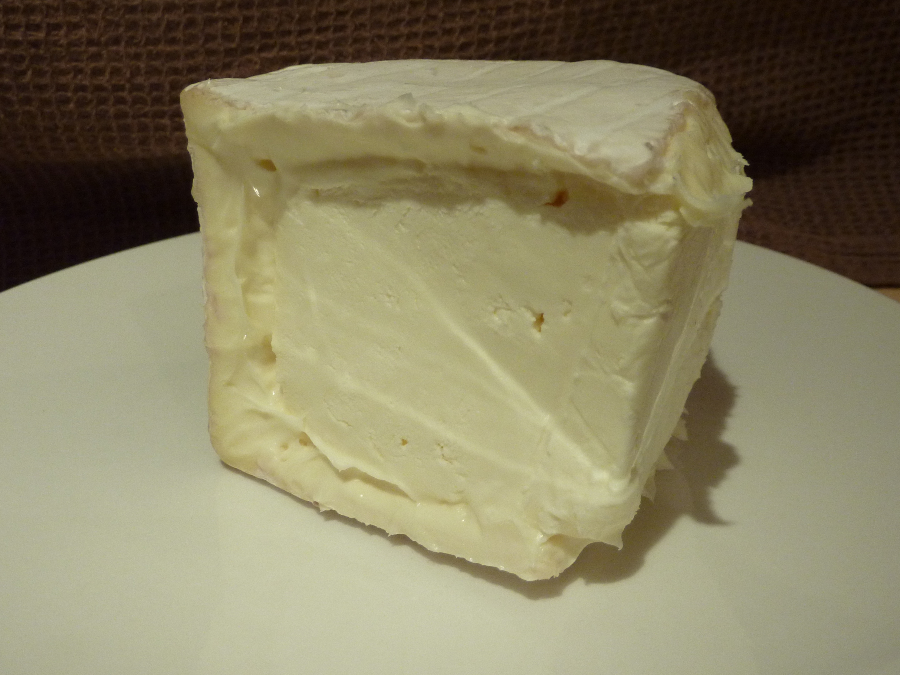 Picture of a slice of Délice d'Argental, a French cheese